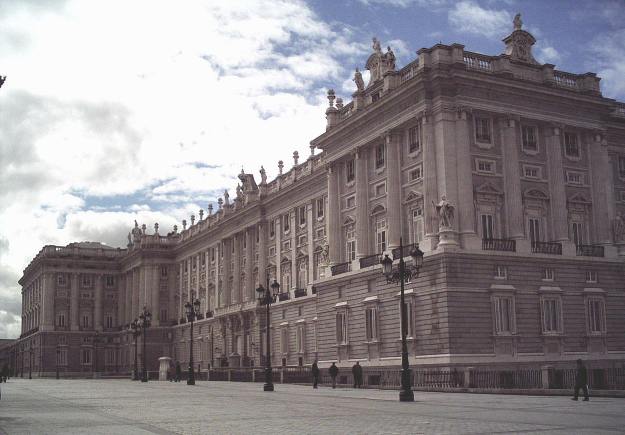 East façade of the Royal Palace of Madrid (Spain). Built: 1738–1764 and 1778. Architects: Filippo Juvarra (1678–1736) and Giovan Battista Sachetti; extension and 1st alteration by Francesco Sabatini (1722–1797).